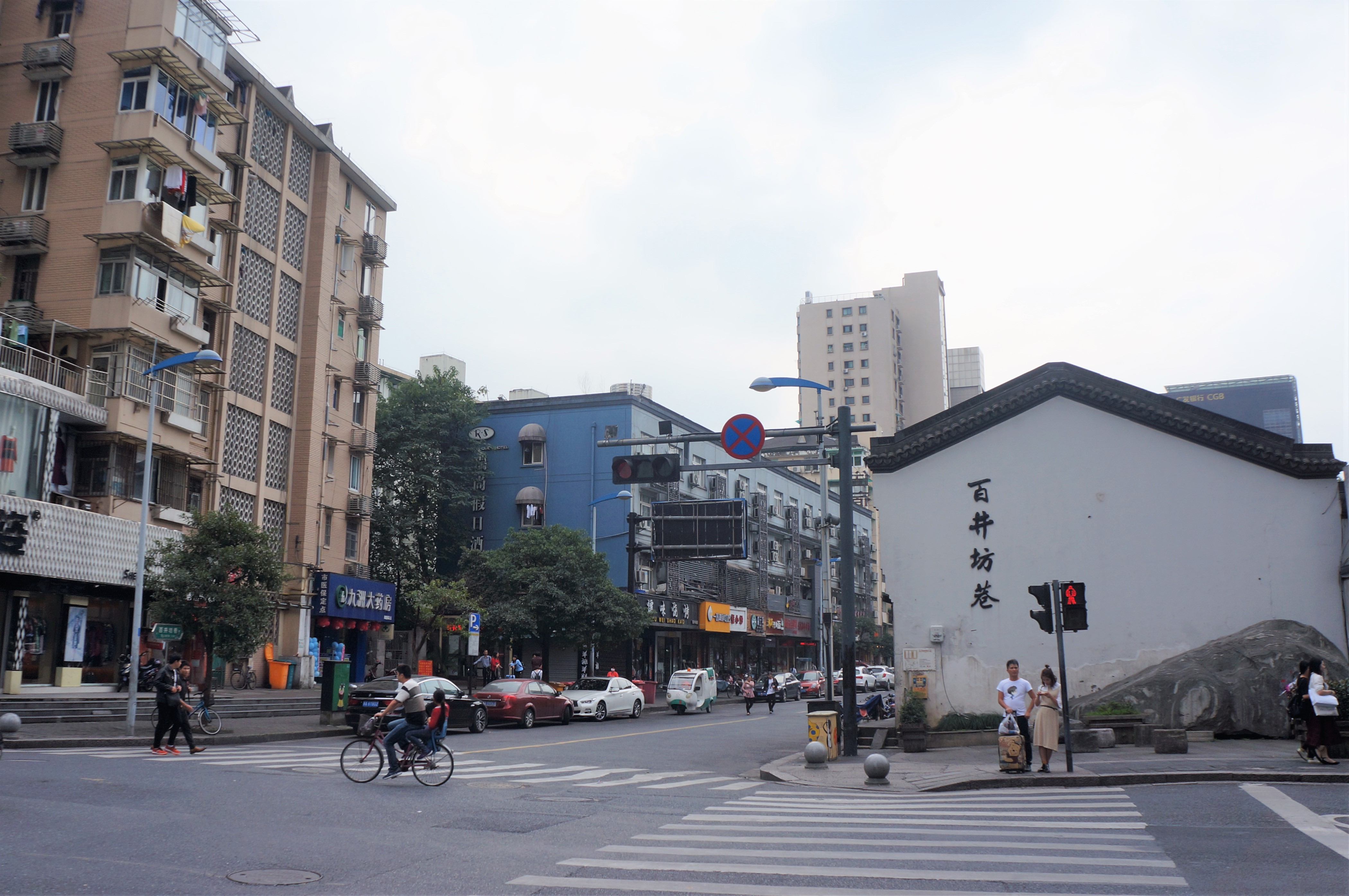 201610 Baijingfang Alley East